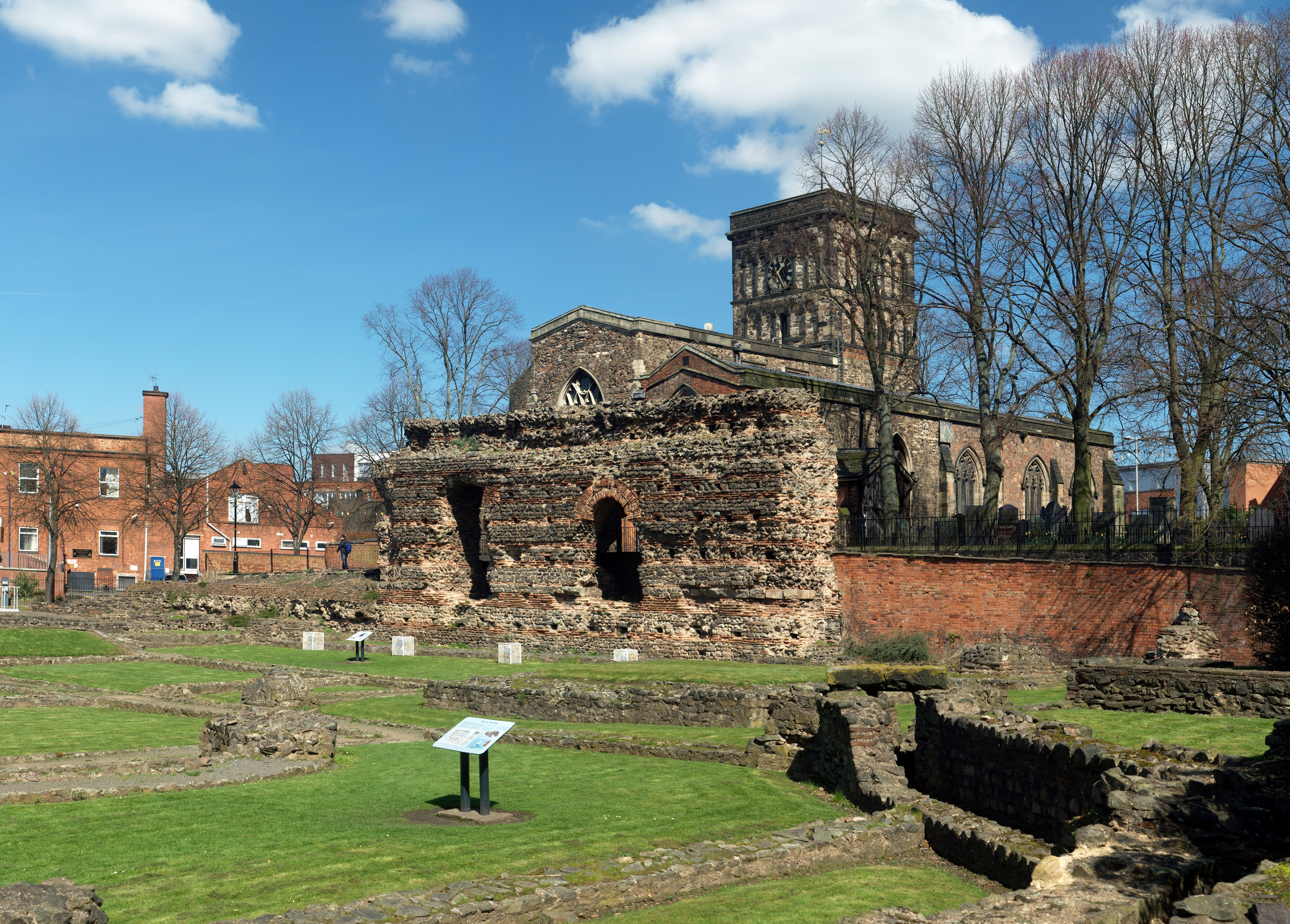 The Jewry Wall and St Nicholas' Church in Leicester, England. The wall is the second largest piece of surviving civil Roman building in Britain, and is both a Scheduled Monument and a Grade I listed building. Originally it separated the Palaestra from the Frigidarium at Ratae Corieltauvorum's baths. St Nicholas' Church is also Grade I listed, and dates from AD 880.